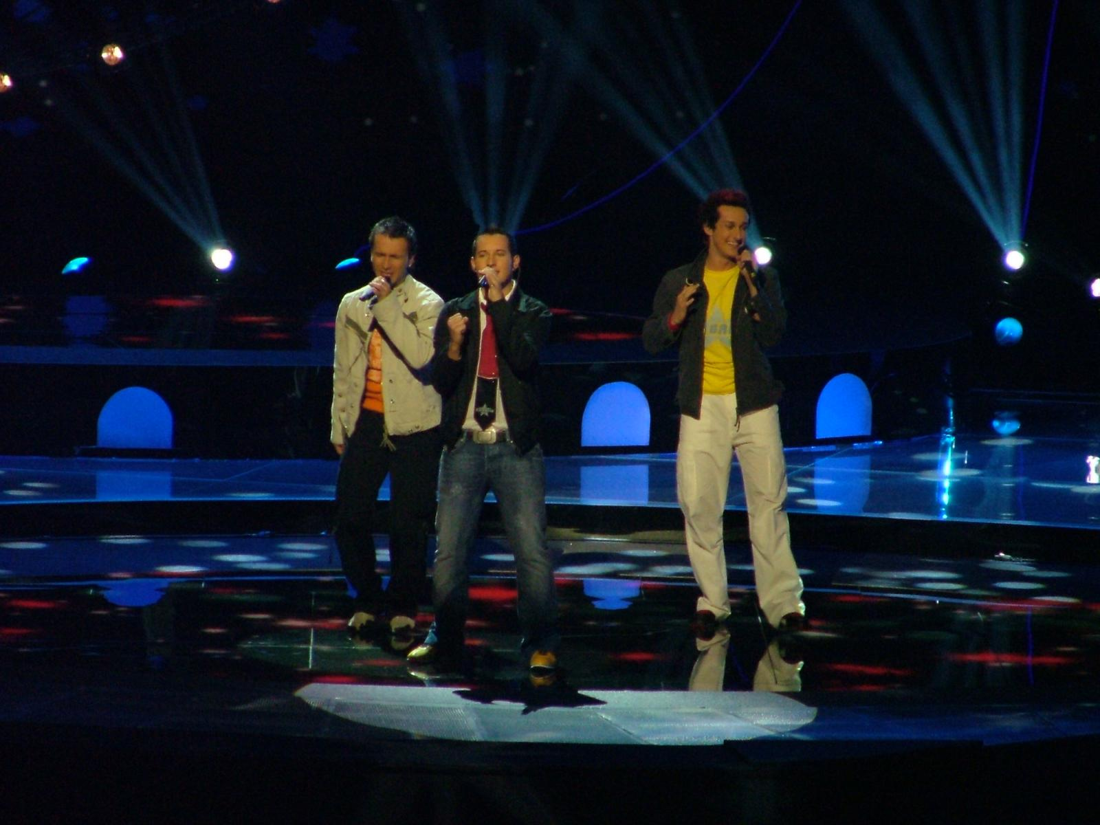 Tie Break, representing Austria, performing "Du bist" at the rehearsals of the the Eurovision Song Contest 2004 final